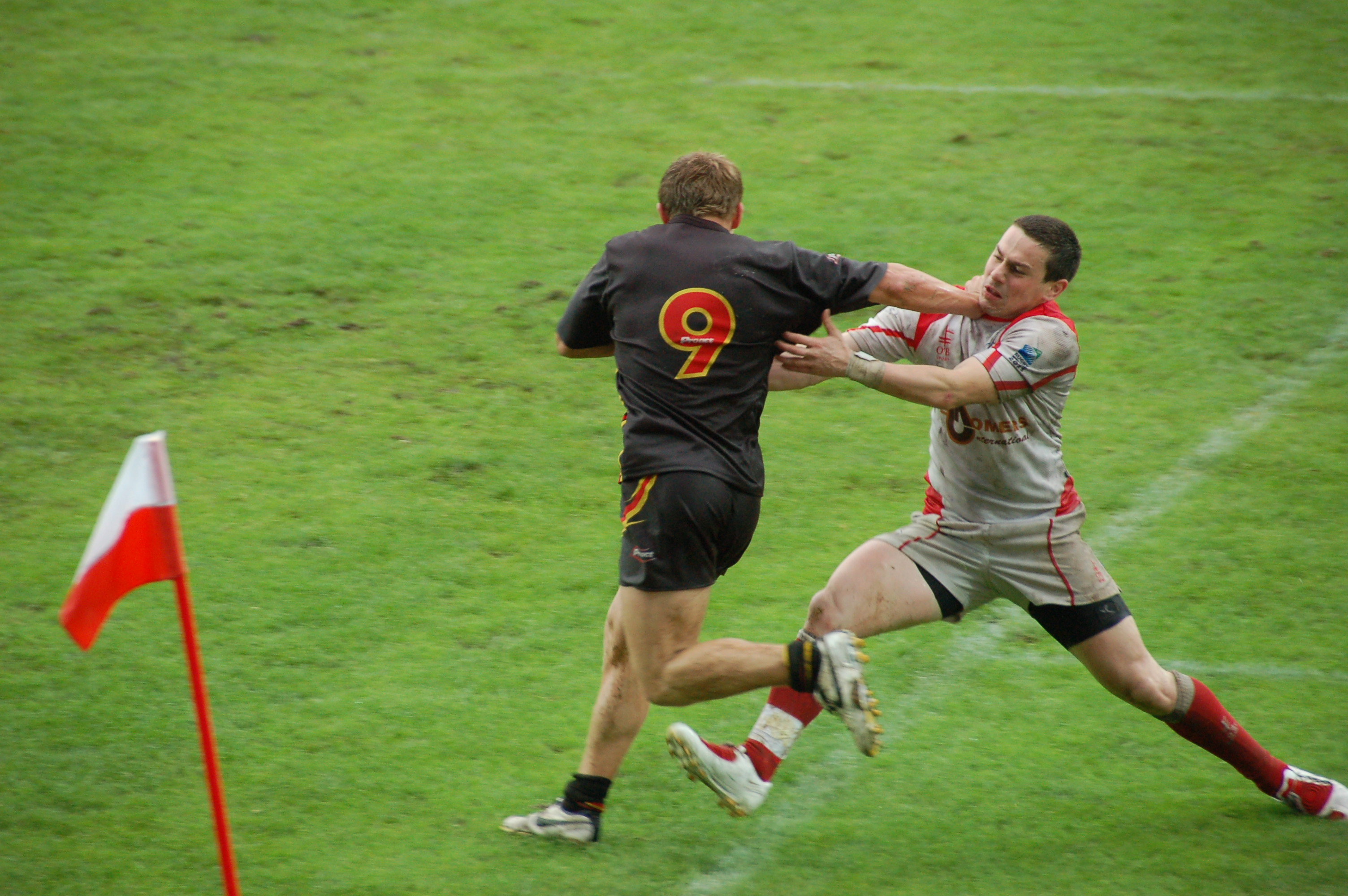 Rugby union scrum-halves of Belgium, Julien Berger (left) and Poland, Łukasz Szostek.